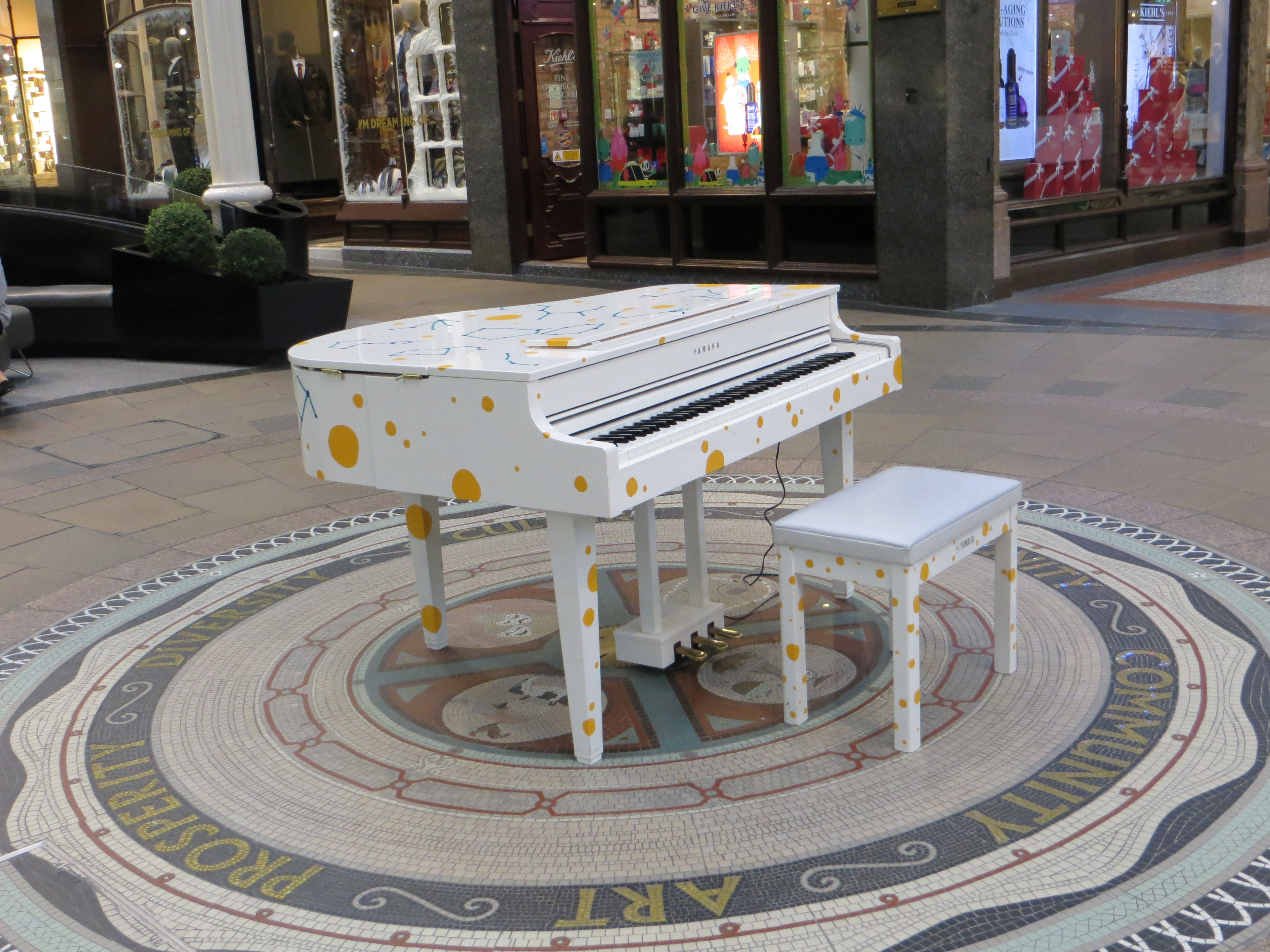 Yamaha digital piano on Queen Victoria Street, Victoria Leeds. Part of the Leeds Piano Trail for members of the public to play.